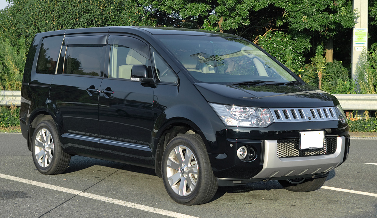 Mitsubishi Delica D:5 G-Power package (2007)